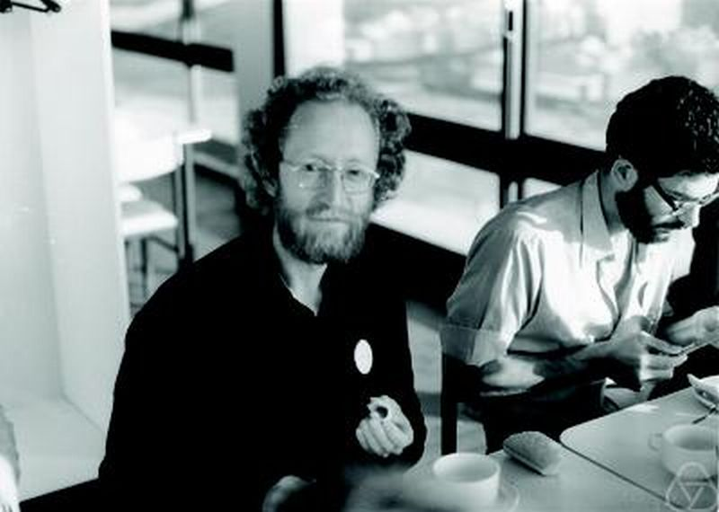 Oscar Lanford III, Rennes 1975